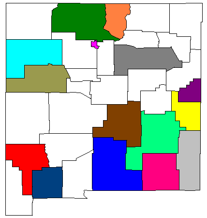 Map of New Mexico's micropolitan areas; created with the GIMP. Made by User:Acntx.